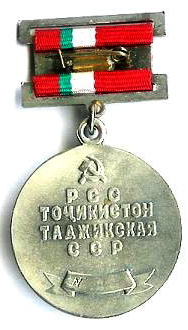 Reverse side of the medal for the People's Artist of the Tajik SSR